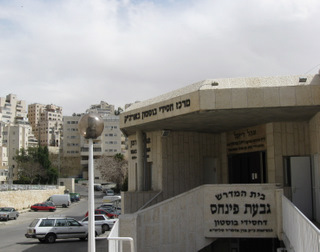 Picture of the Front of Congreagation Givat Pinchas Har Nof Jerusalem